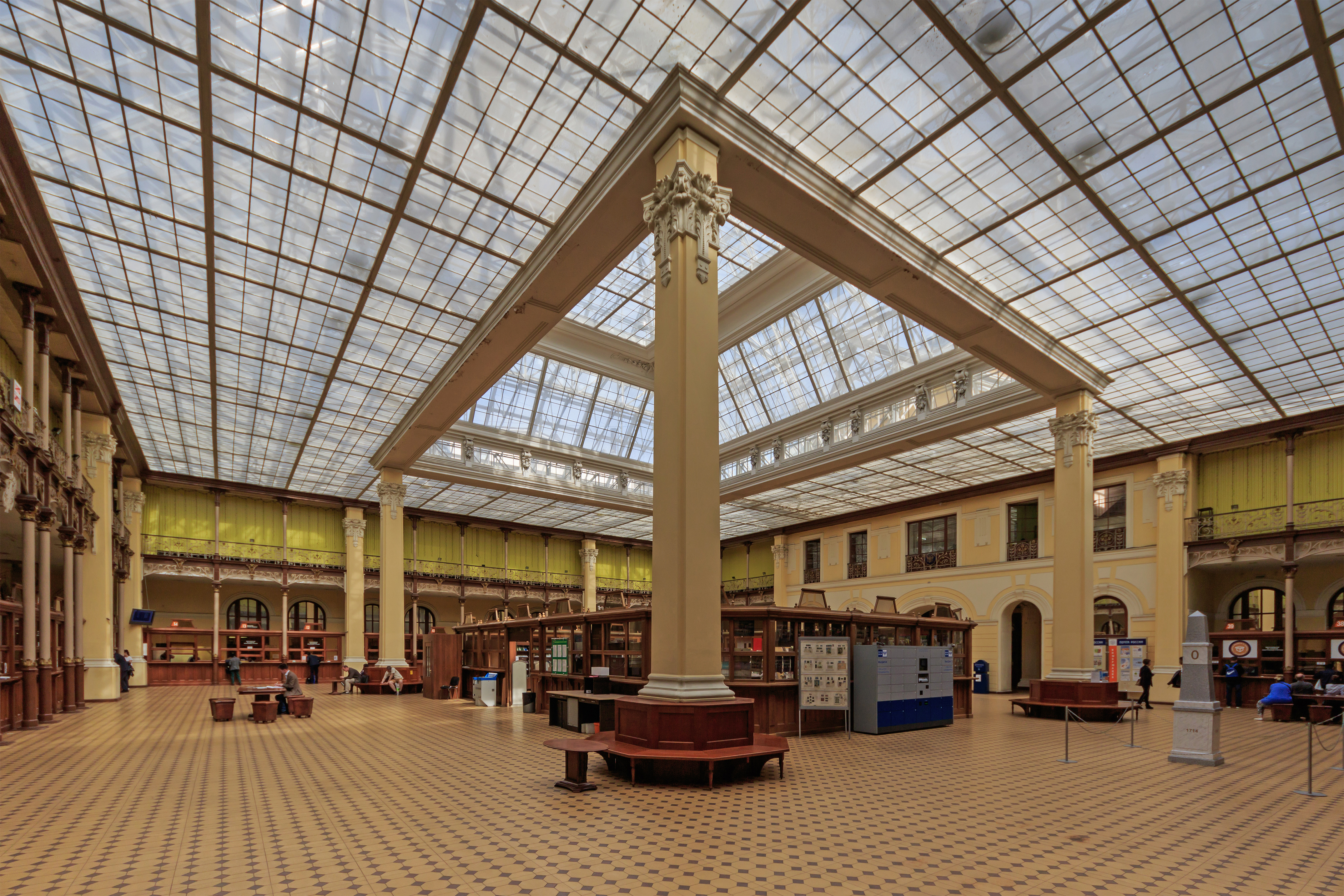 Interior of the Main Post Office in Saint Petersburg (Russia).